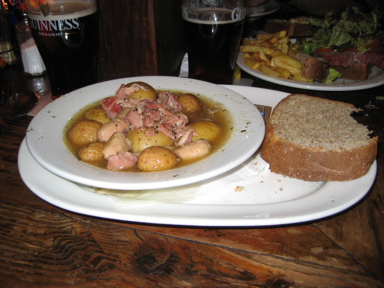 My dinner. Coddle and Irish Soda bread....unfortunately NOT a Guinness but a different tasty Irish brew...just wish I remembered what it was.